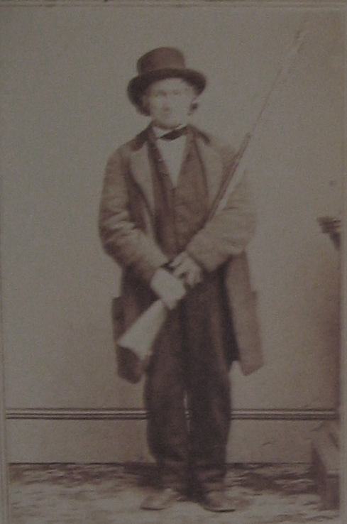 Photograph of John L. Burns